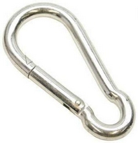 simple carabiner